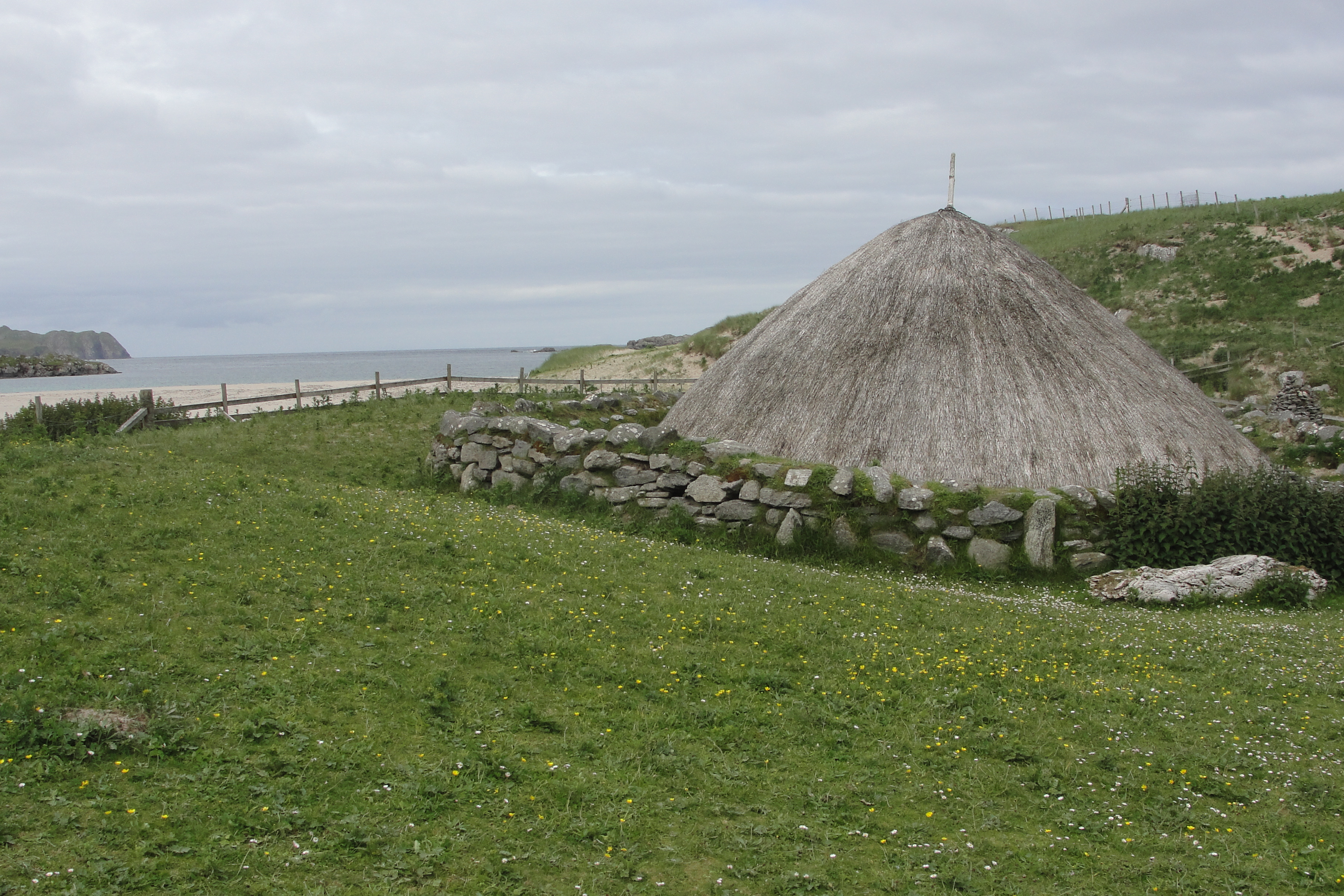 Bostadh Iron Age House with the beach in the background